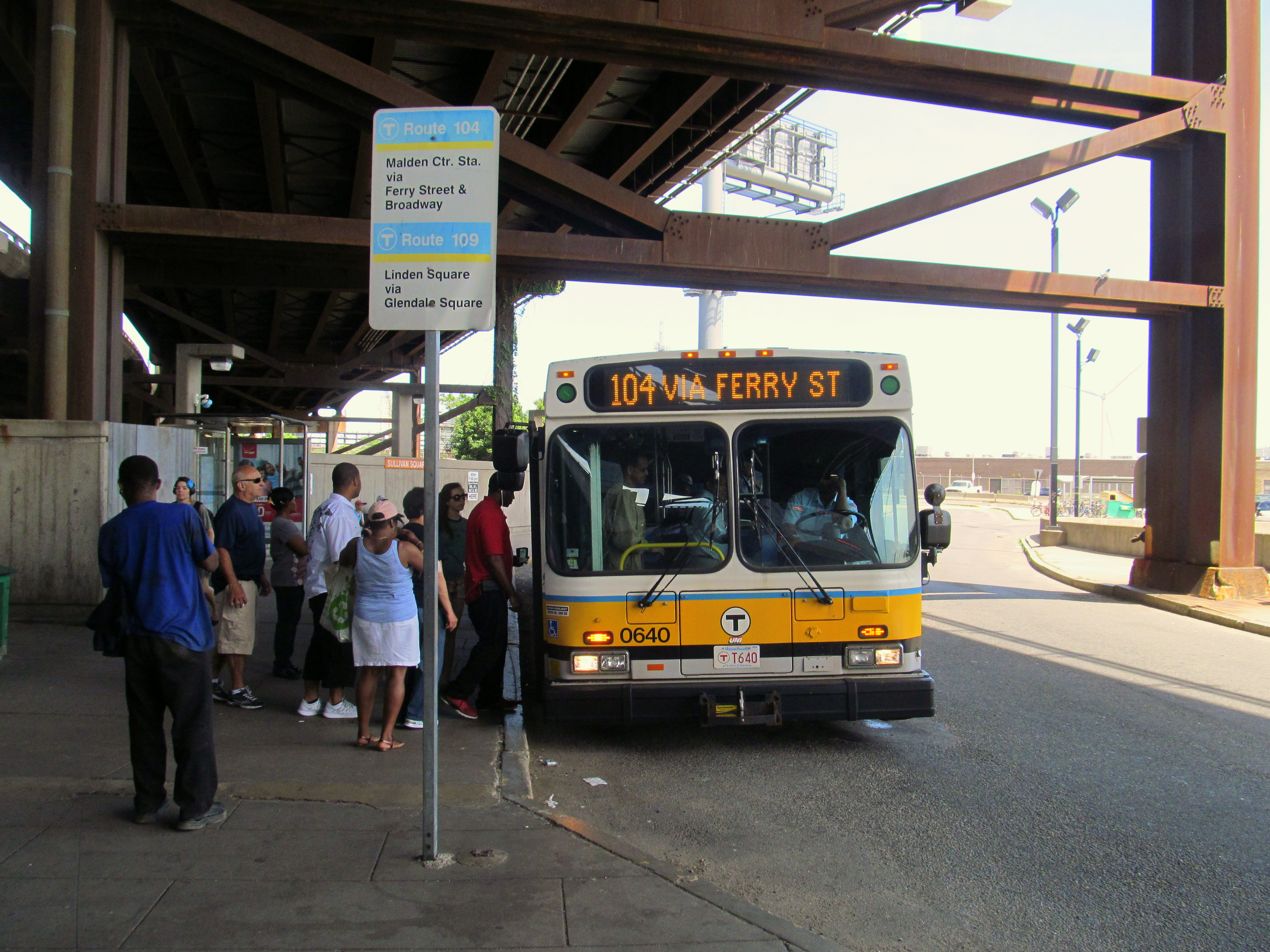 A #104 bus loads passengers at Sullivan Square station in June 2015